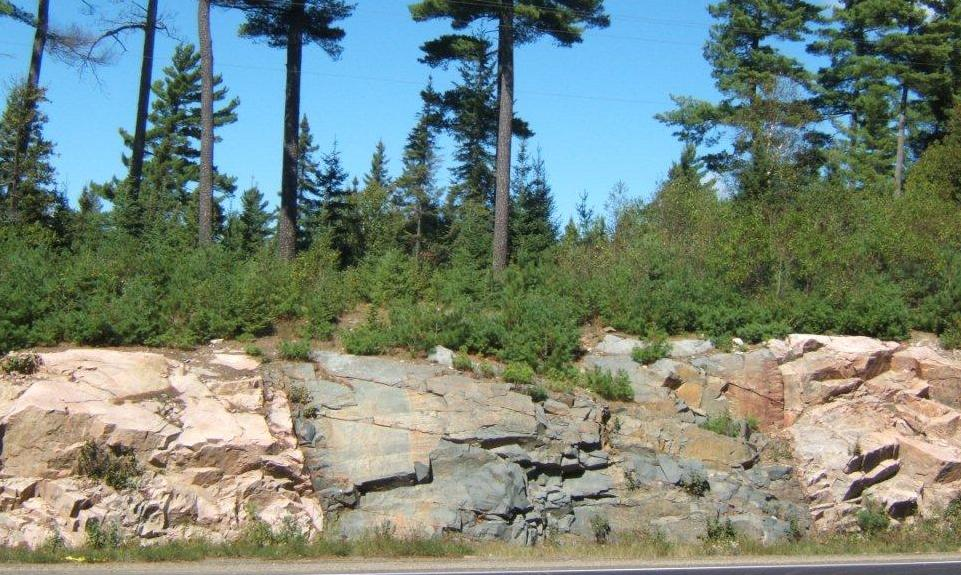 A ~2 meter wide dike intruding felsic igneous rock along Highway 11 immediately north of Temagami North in Temagami, Ontario, Canada.